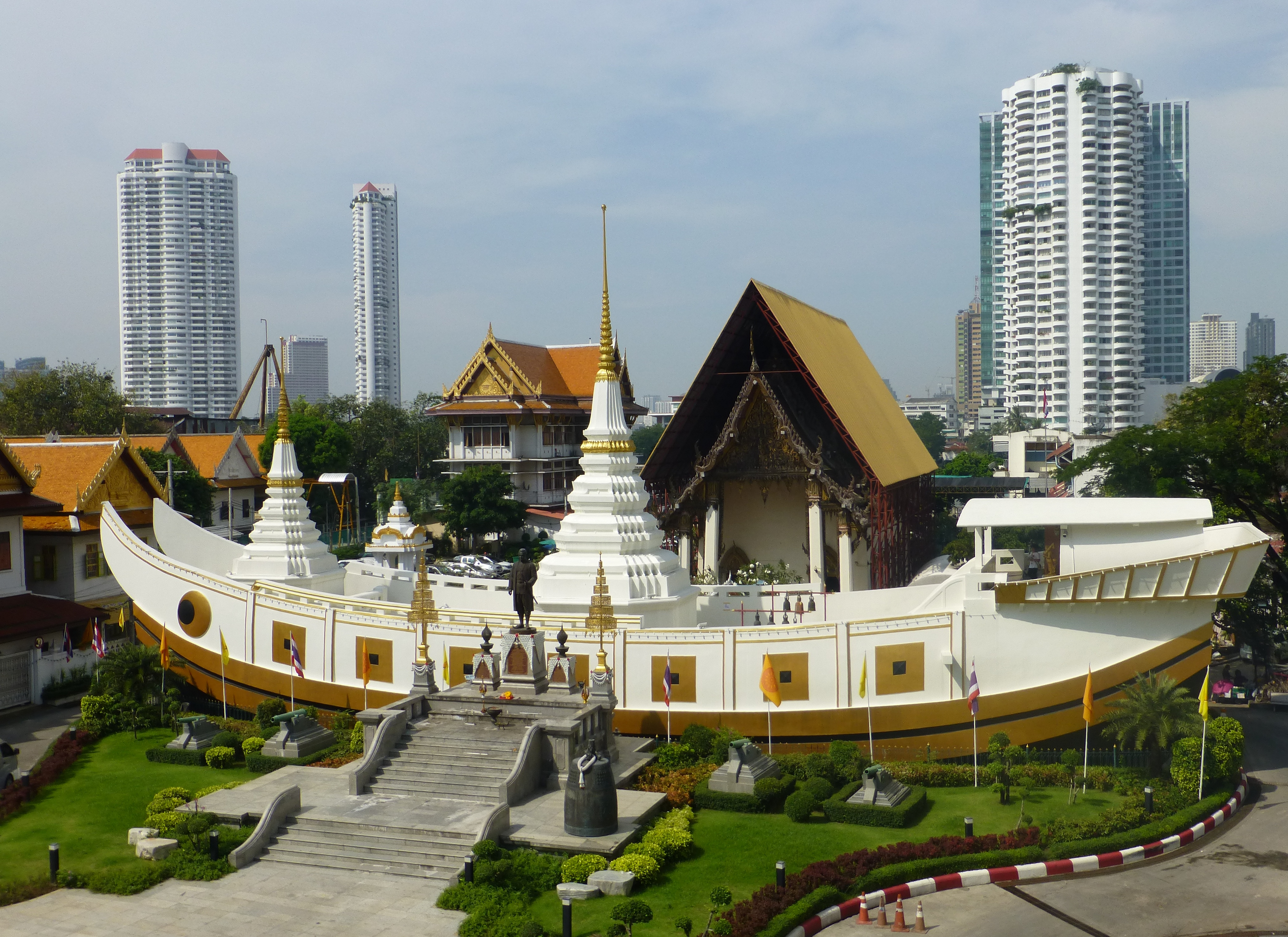 001 Concrete Chinese Junk, Wat Yannava, Bangkok, Thailand Photograph from Wat Yannawa in Bangkok, Thailand taken by Anandajoti.